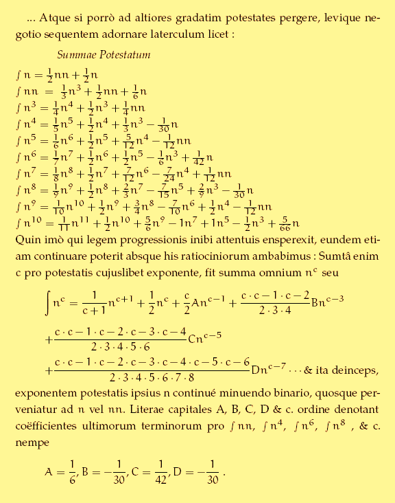 Cutout From Jakob Bernoullis Ars Conjectandi, 1713, TeXted by the creator of the image.